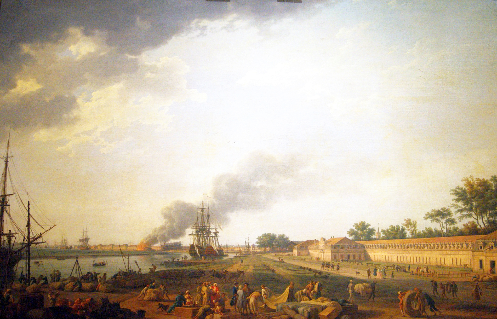 view of the French port of Rochefort and its colonial magazines